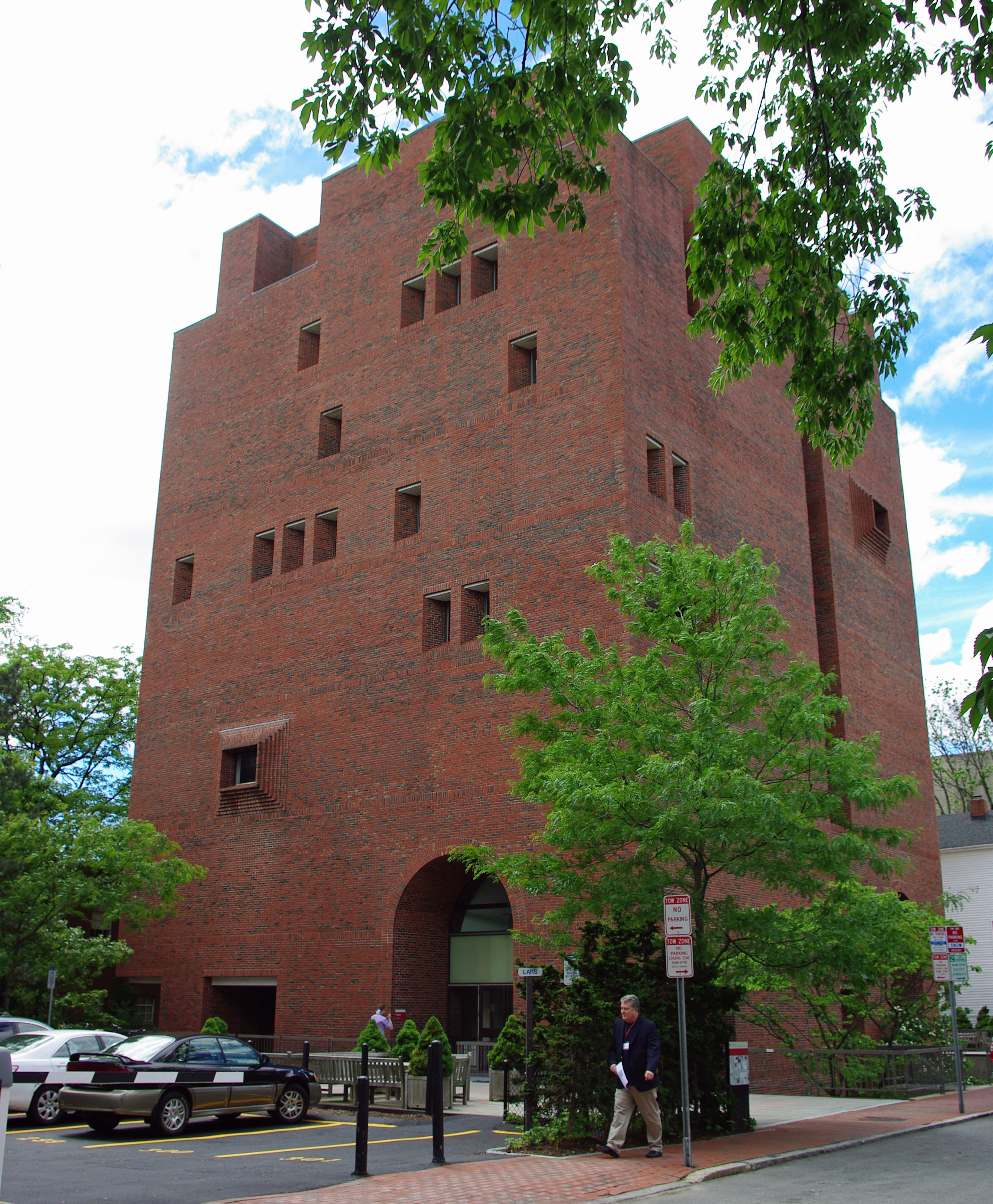 Larsen Hall, Harvard Graduate School of Education